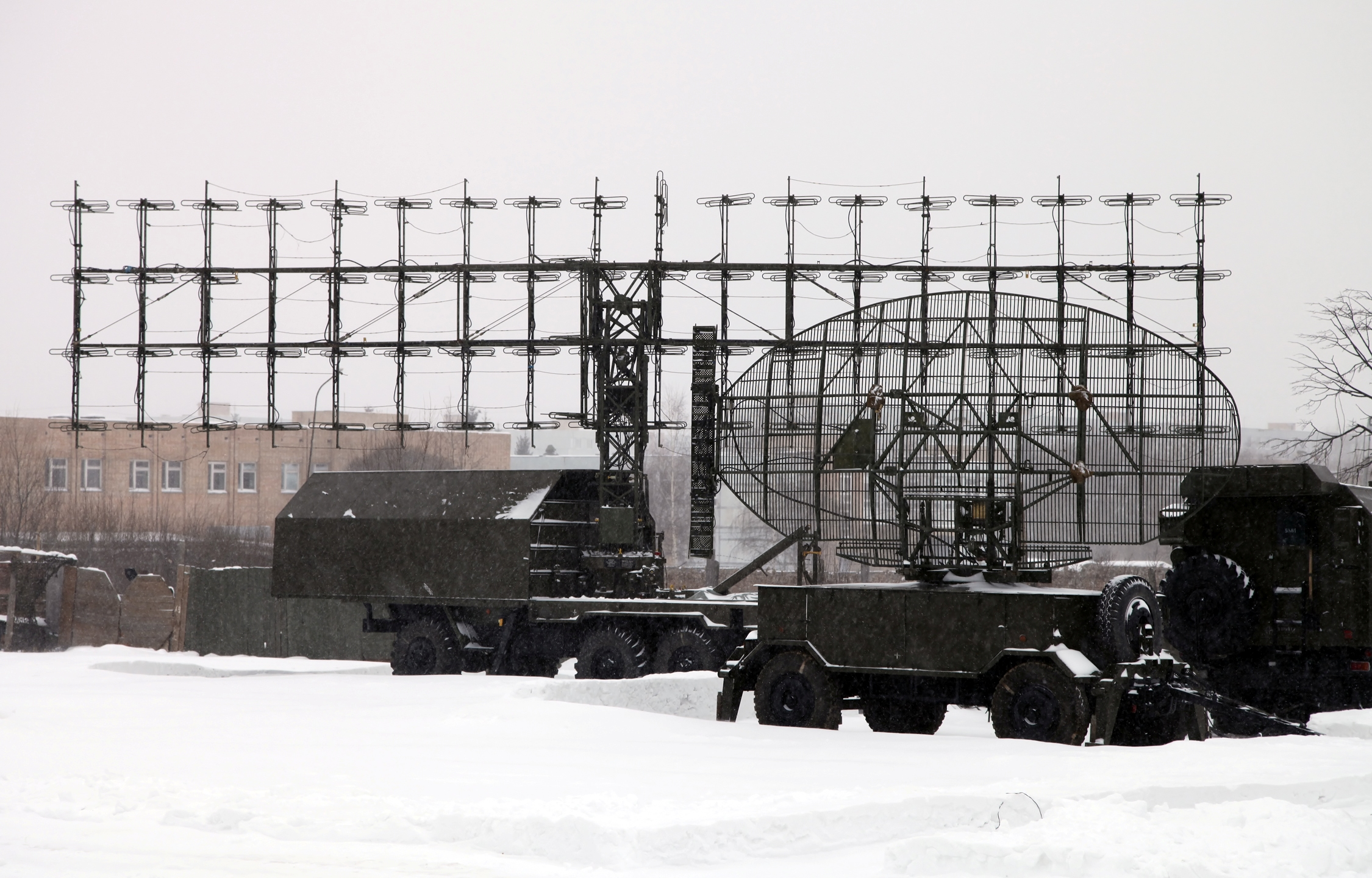 The 202nd Air Defence Brigade in the Western Military District in Russia. This air defence brigade is equipped with S-300V-SAMs. This brigade received these systems in 1989. 1L13 Nebo-SV deployed. Radar antenna and IFF interrogator.